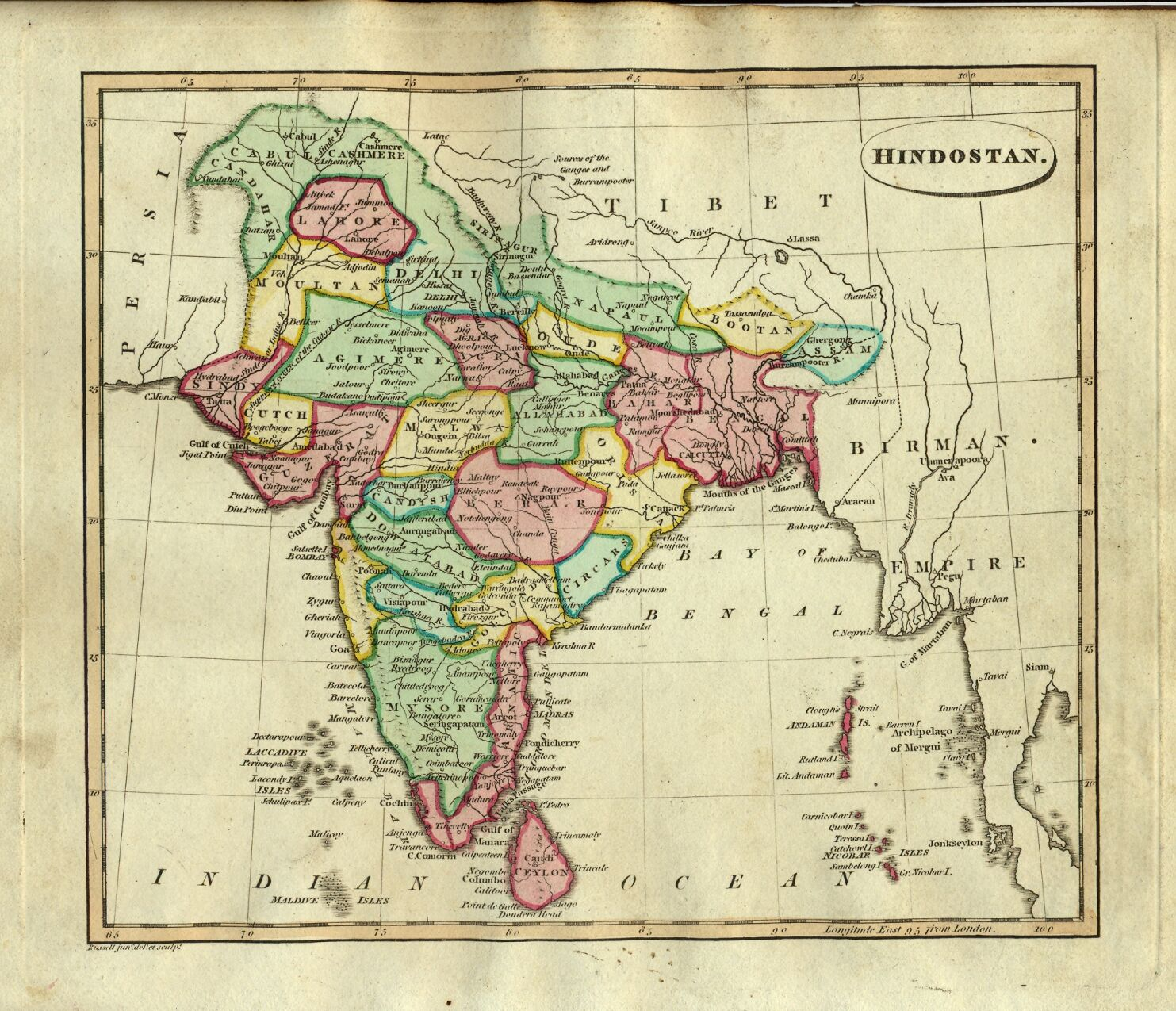 Map of Hindostan, 1814